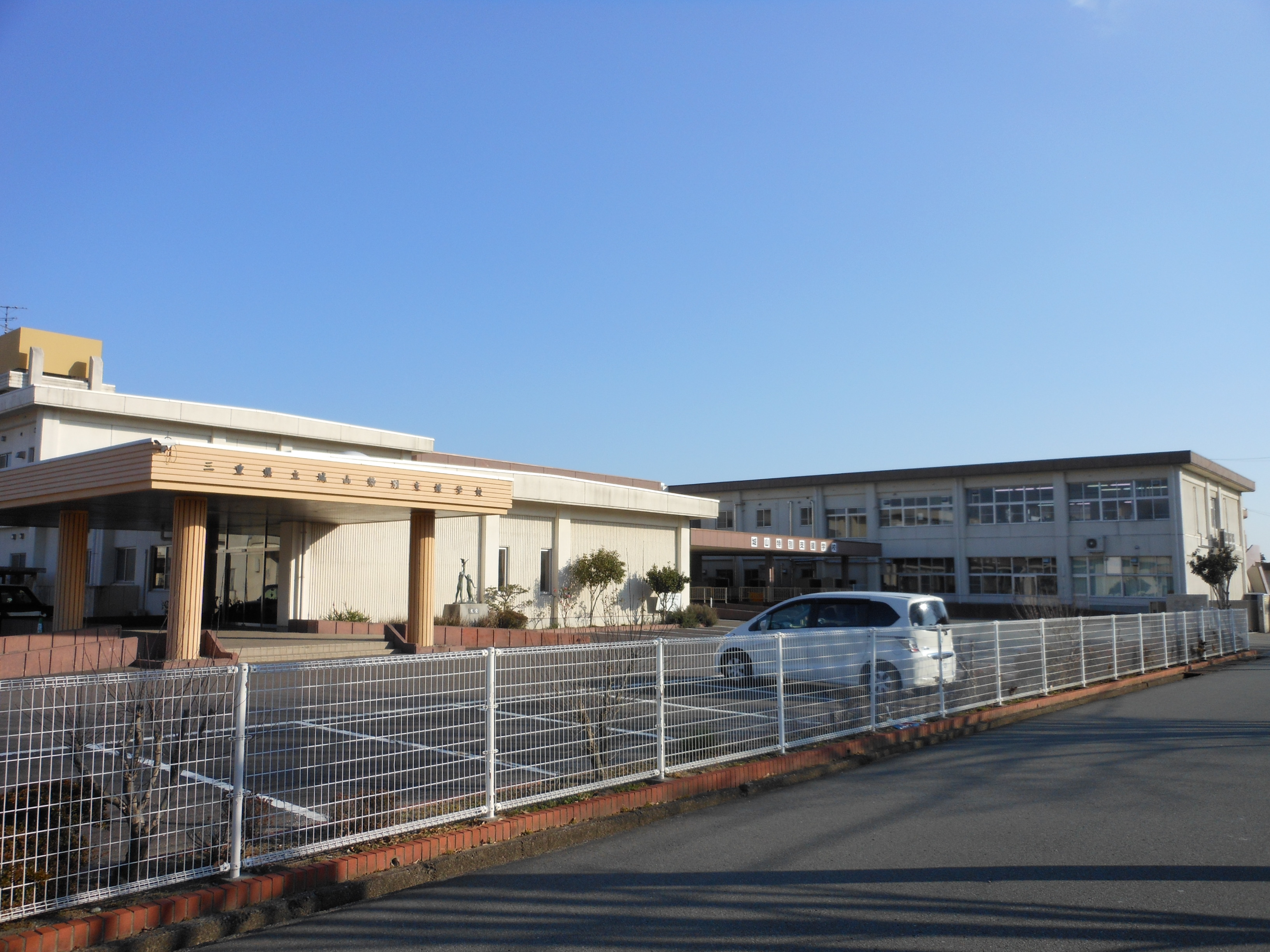 This is the Mie prefectural Shiroyama Special School in Shiroyma, Tsu city, Mie prefecture, Japan.